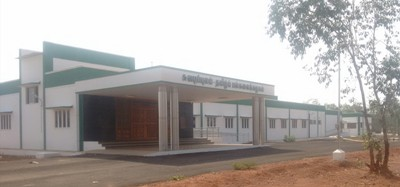 Tamil University naa shaped building தமிழ்ப்பல்கலைக்கழக நா வடிவக் கட்டடம்